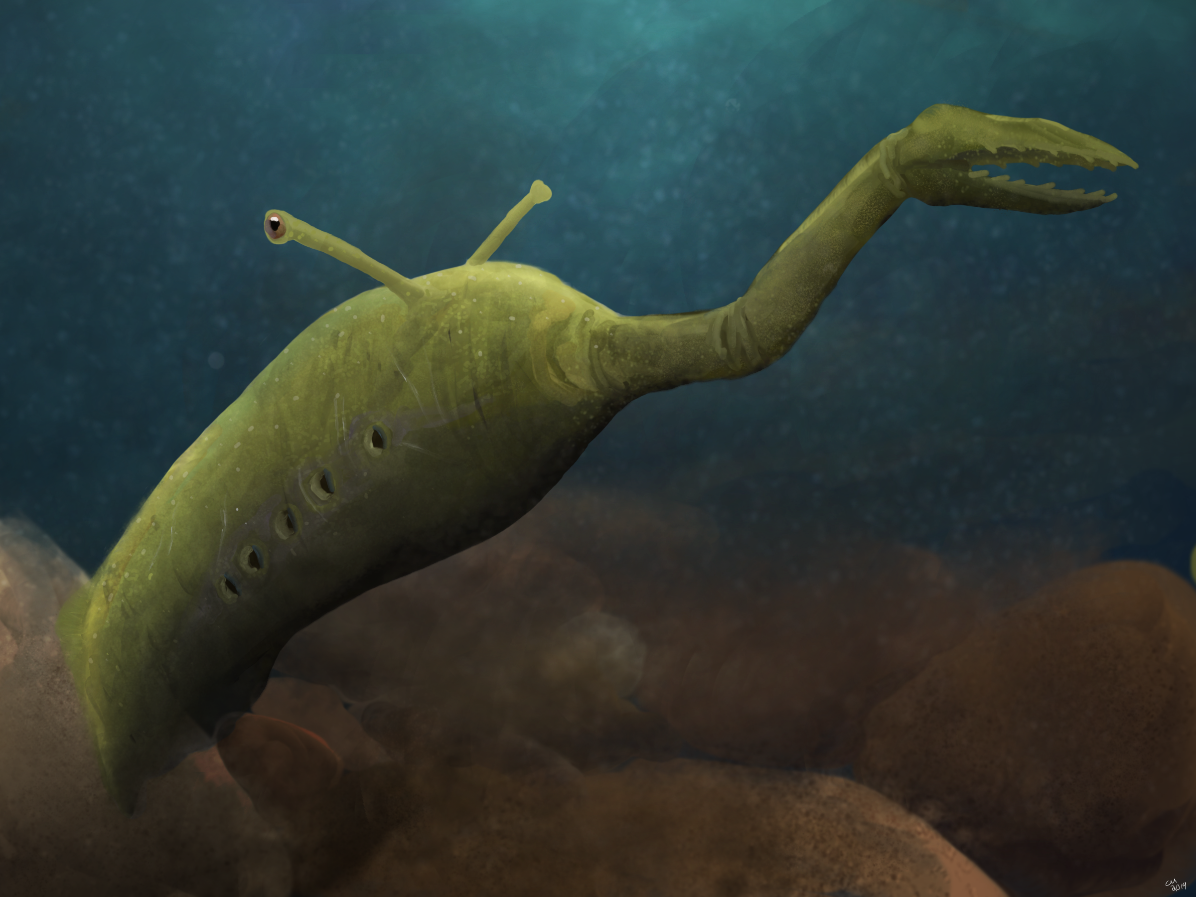 Reconstruction of the Tully Monster, or Tullimonstrum, as a lamprey-like invertebrate.